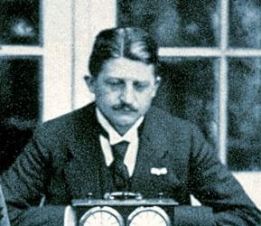 Carl Carls, german chessplayer, watching a game in Mannheim in 1914